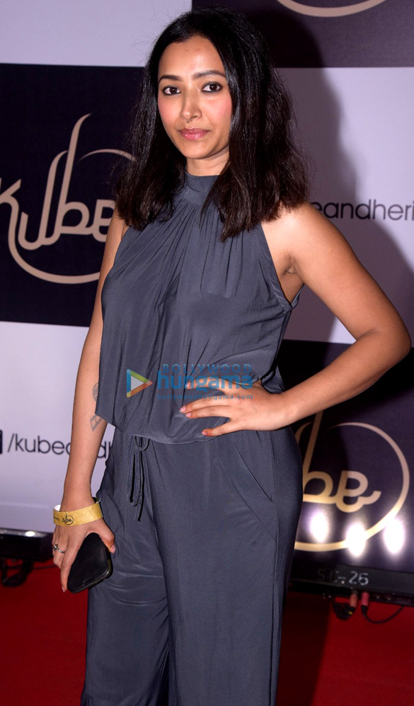 Prasad at the launch of ‘KUBE’ in Mumbai